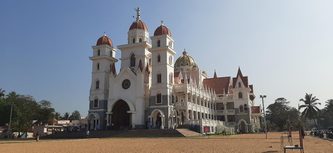 Newly built Vettucaud church